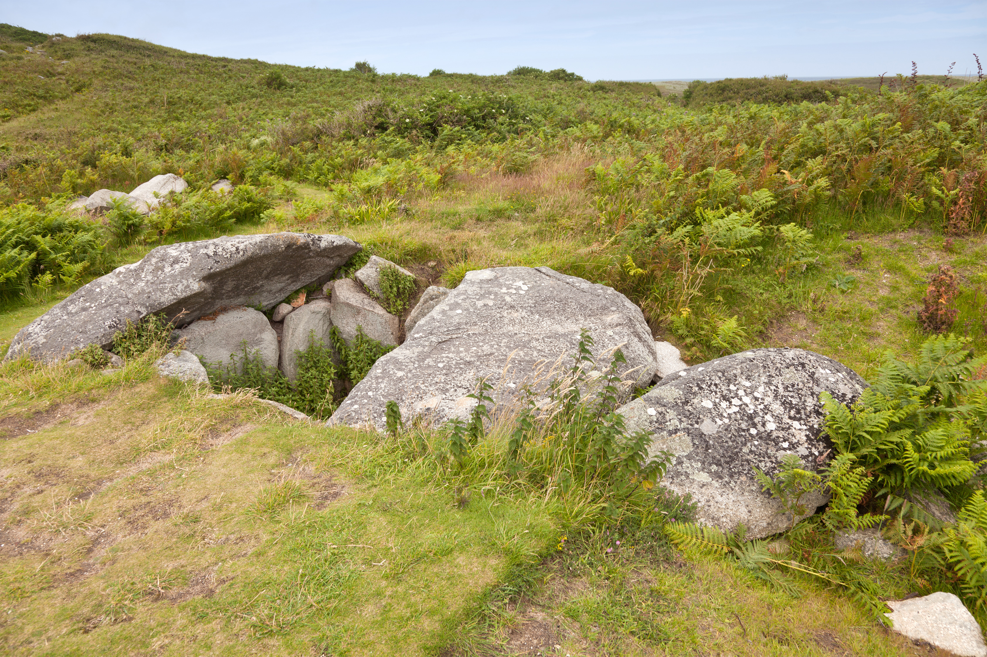 Robert's Cross, prehistoric grave, Herm Island